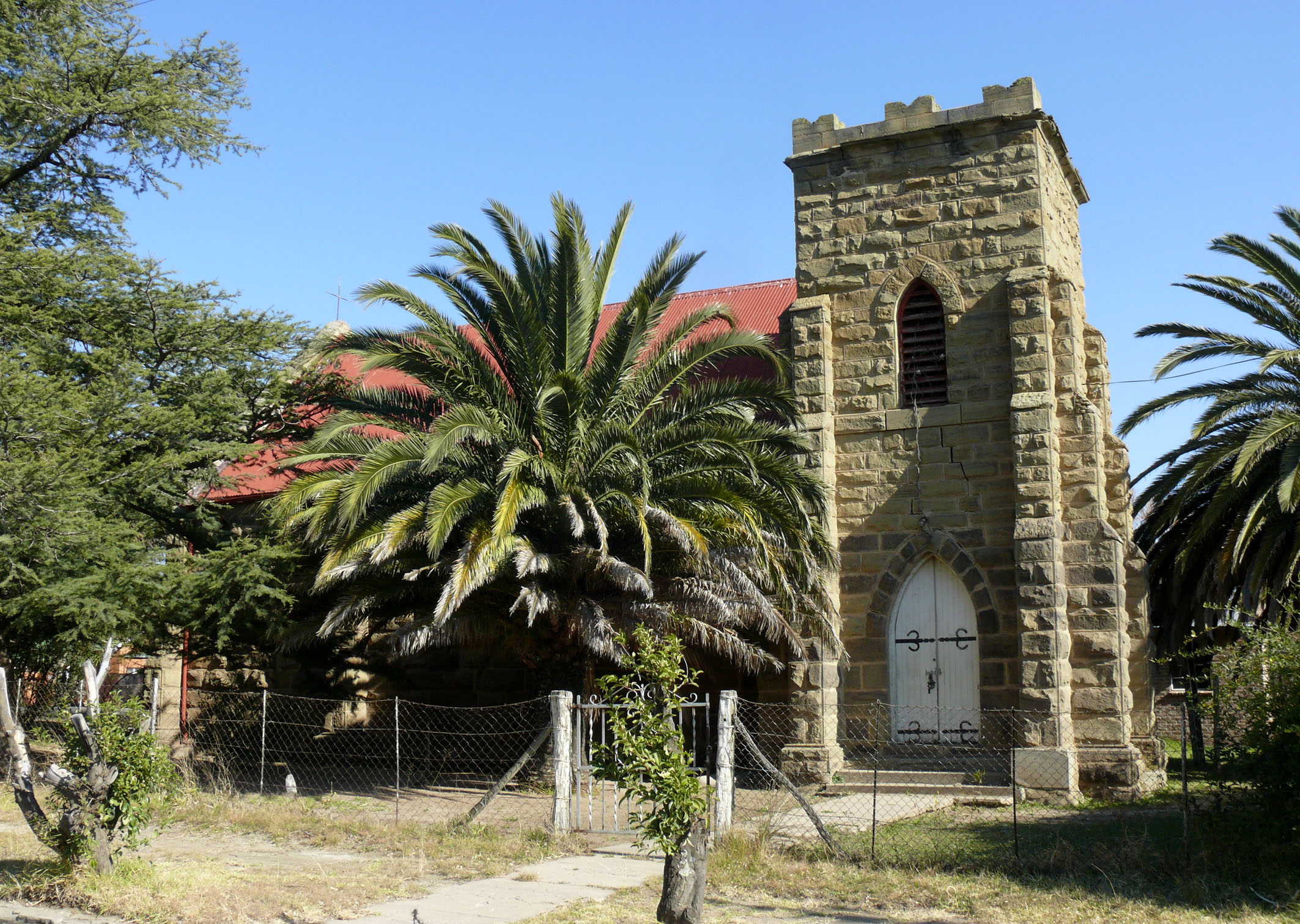 Roman Catholic church in Indwe, Eastern Cape